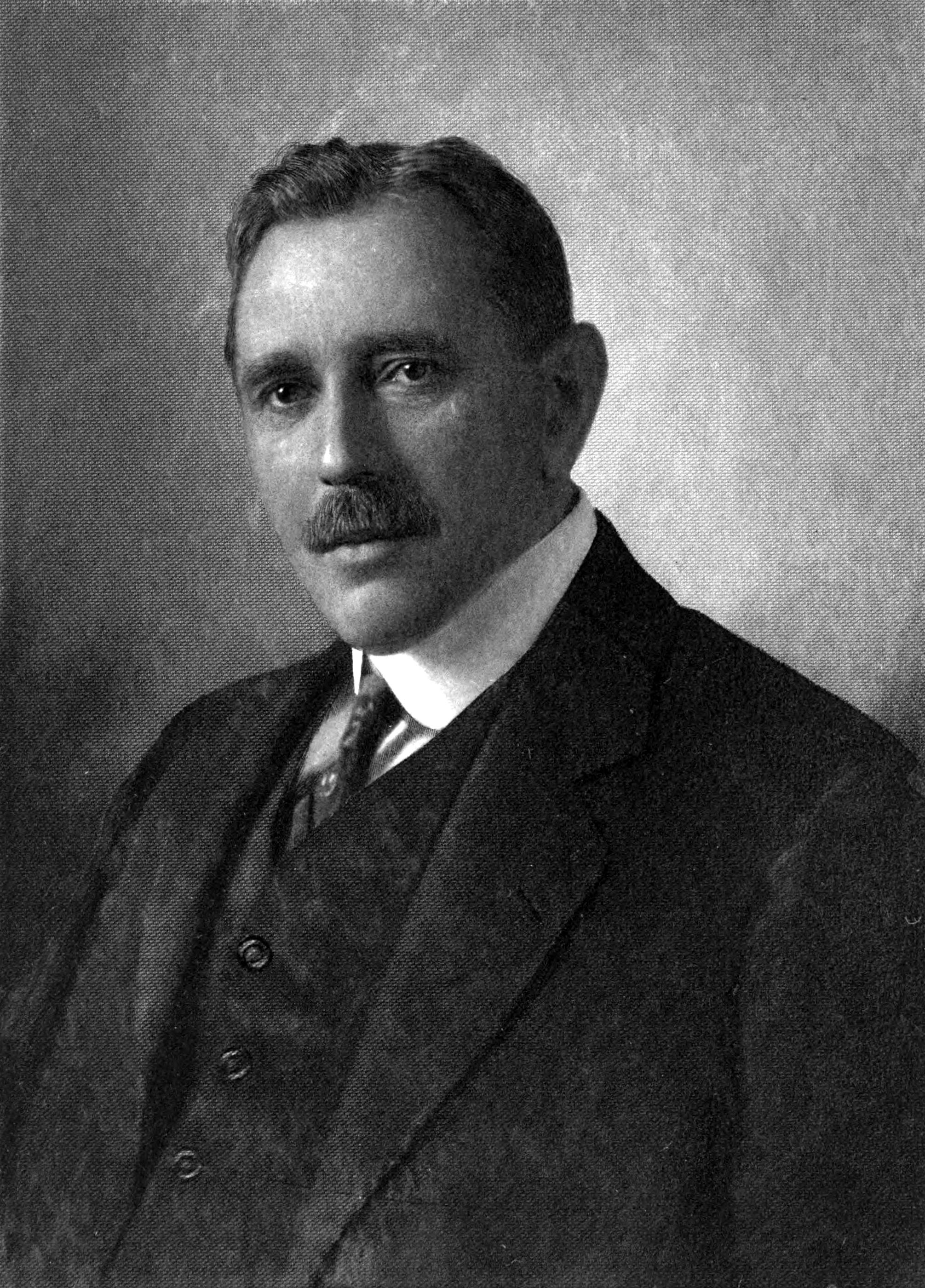 Portrait engraving of United States businessman and politician Herman A. Metz